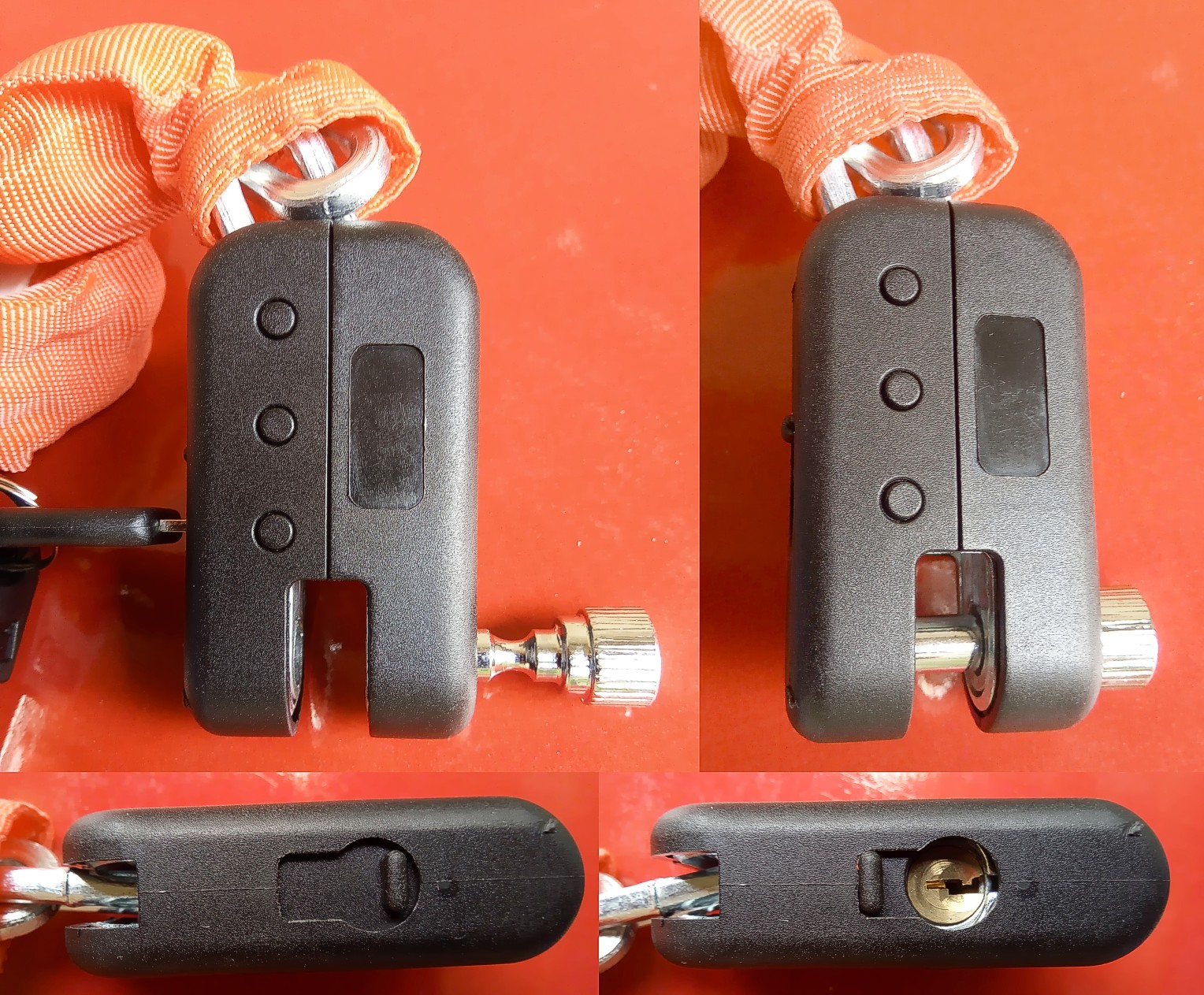 Armored Padlock fitted with chain and protective cover